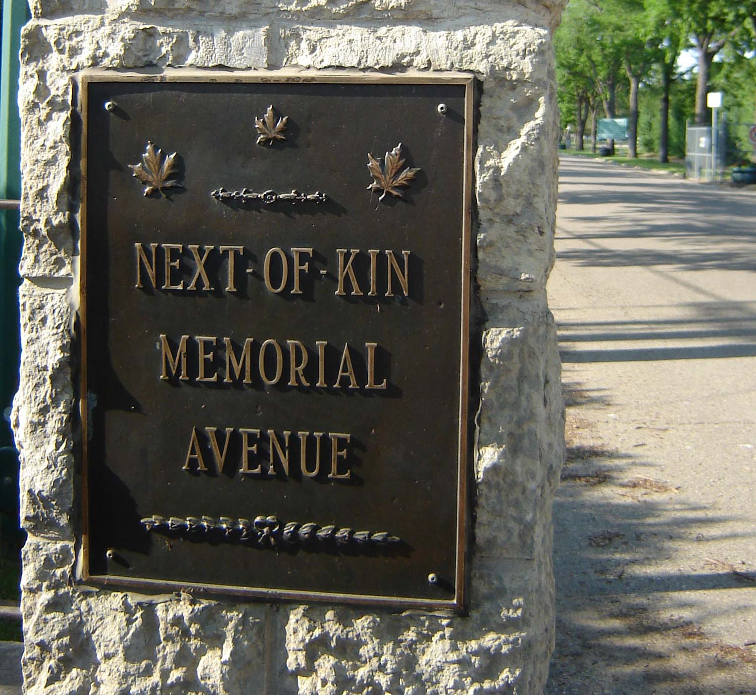 The Next-Of-Kin Memorial Avenue at Woodlawn Cemetery Saskatoon Saskatchewan Canada City of Saskatoon · Departments · Infrastructure Services · Parks